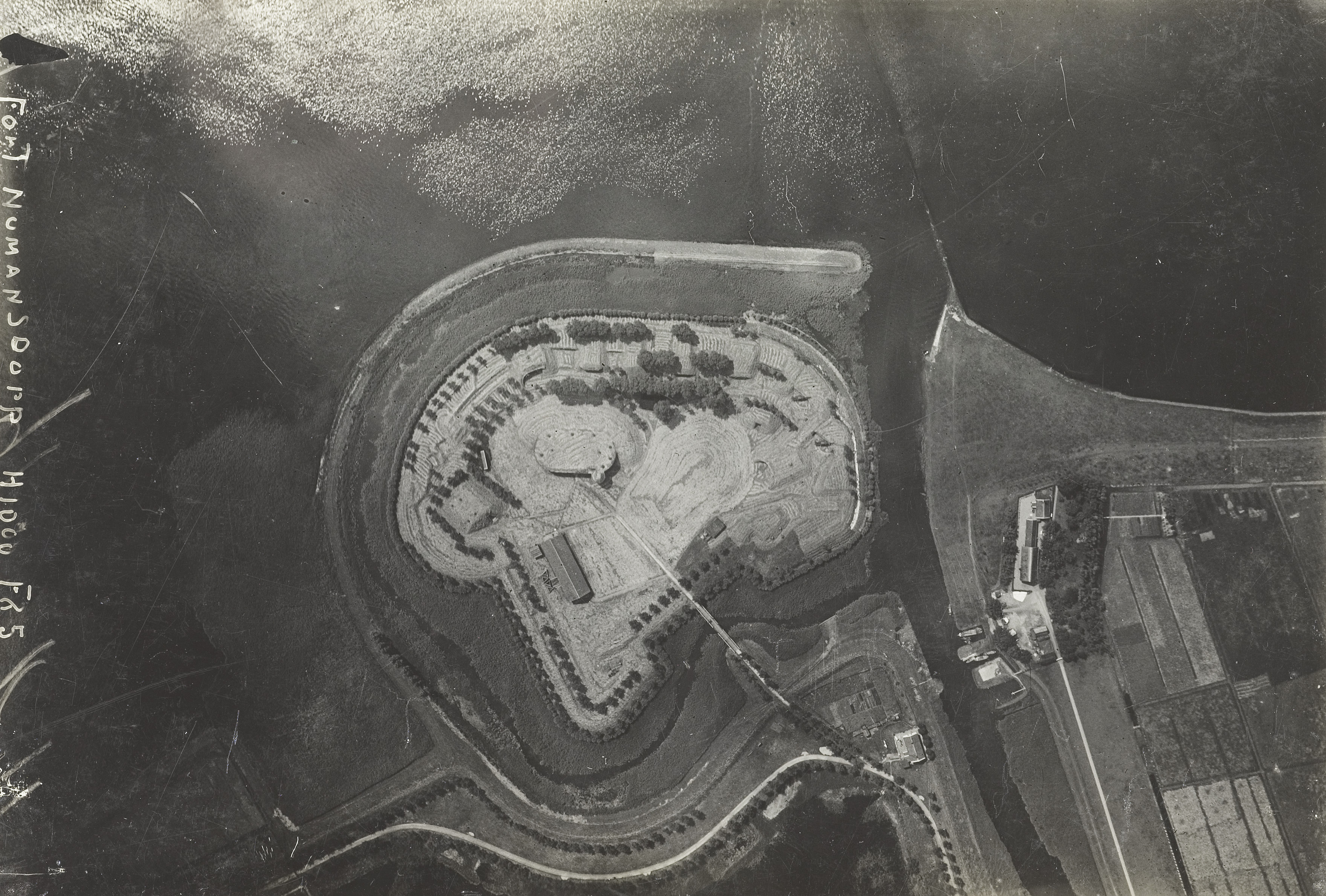 Aerial photograph of Numansdorp, Fort Buitensluis, The Netherlands.